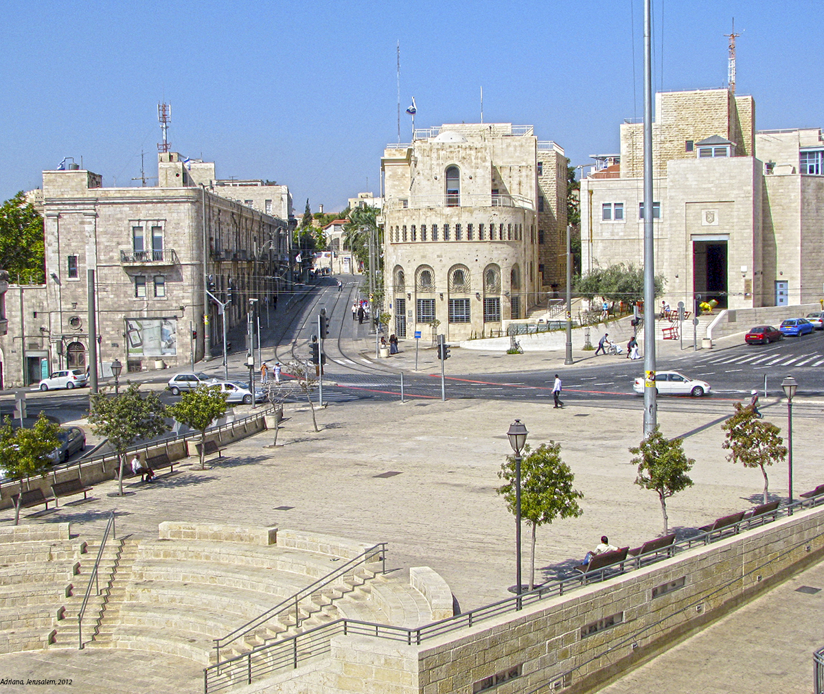 Jerusalem, Tsahal Square